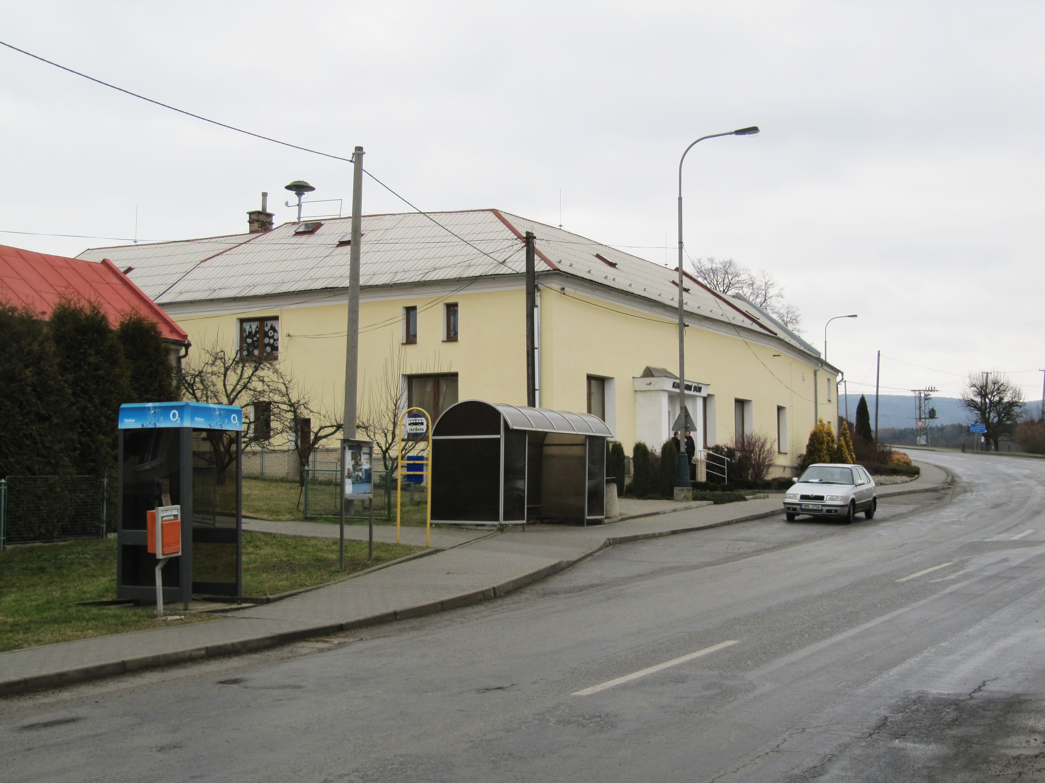 Mrsklesy, Olomouc District, Czech Republic. House of culture.